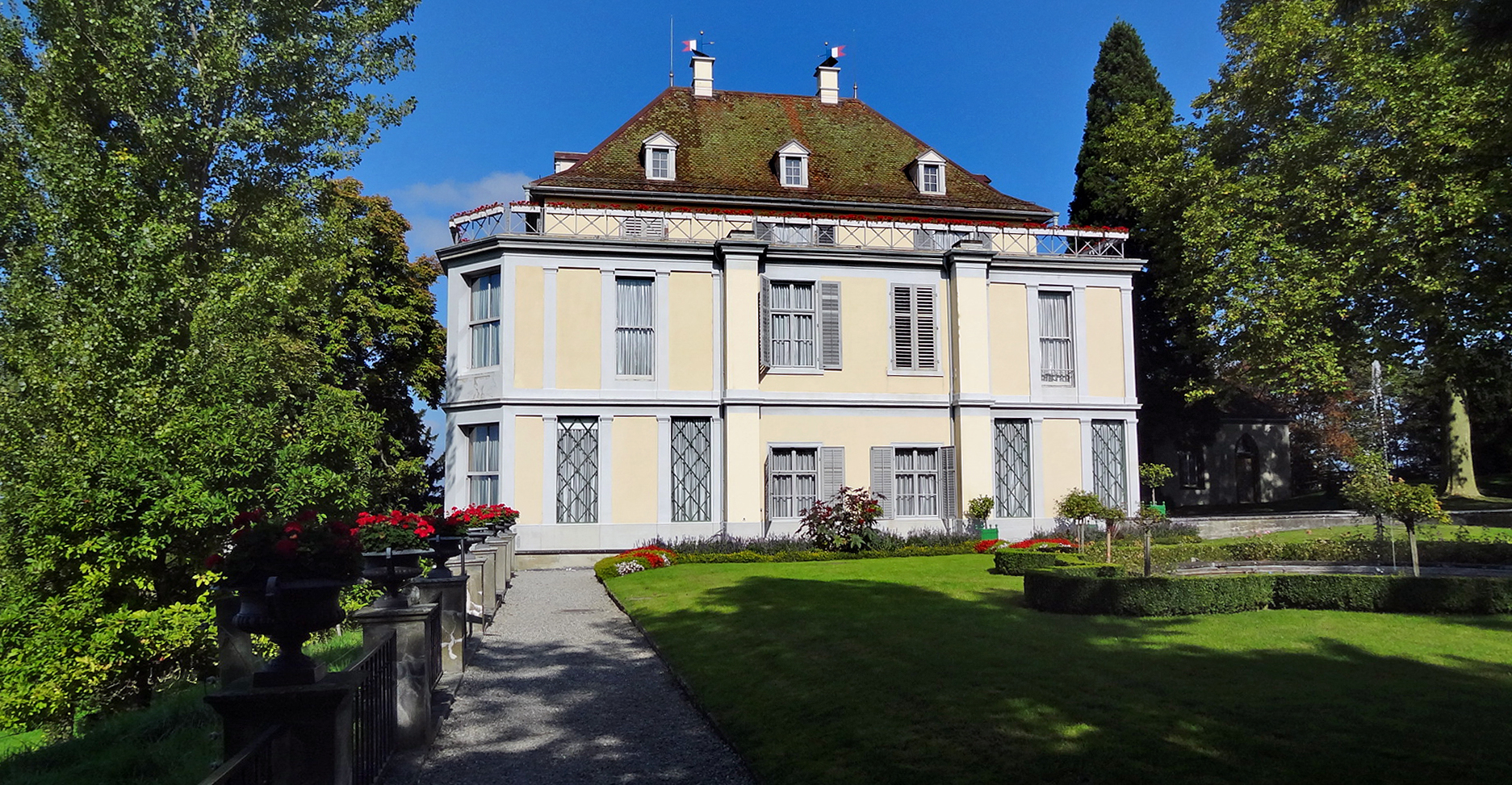 Arenenberg Castle, Switzerland